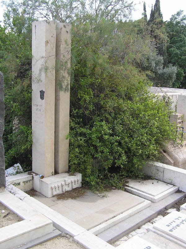 Tomb of Yosef Eliyahu Chelouche in Trumpeldor cemetery in Tel Aviv photographed by Eman, February 2006